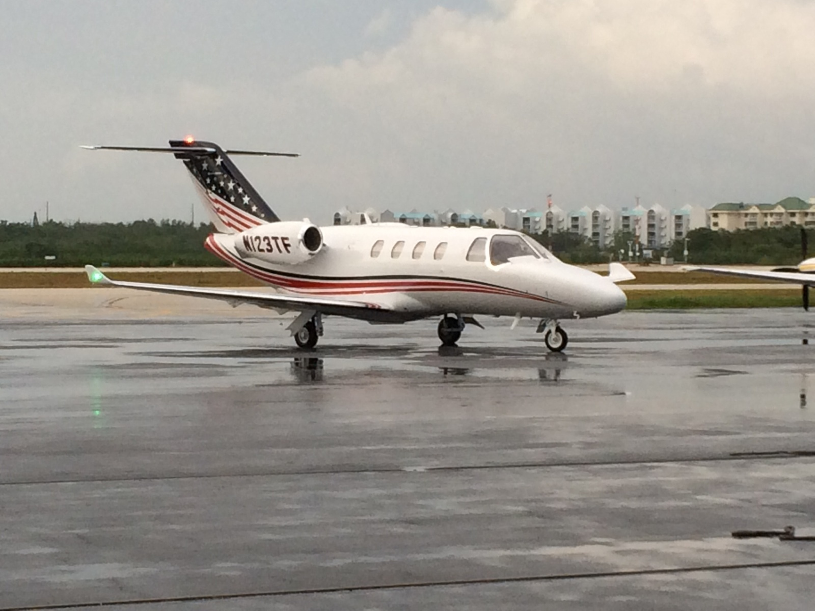 Cessna Citation M2 at Key West, Florida